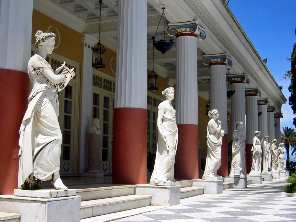 Terrace of Achilleion Palace, Corfu, Greece